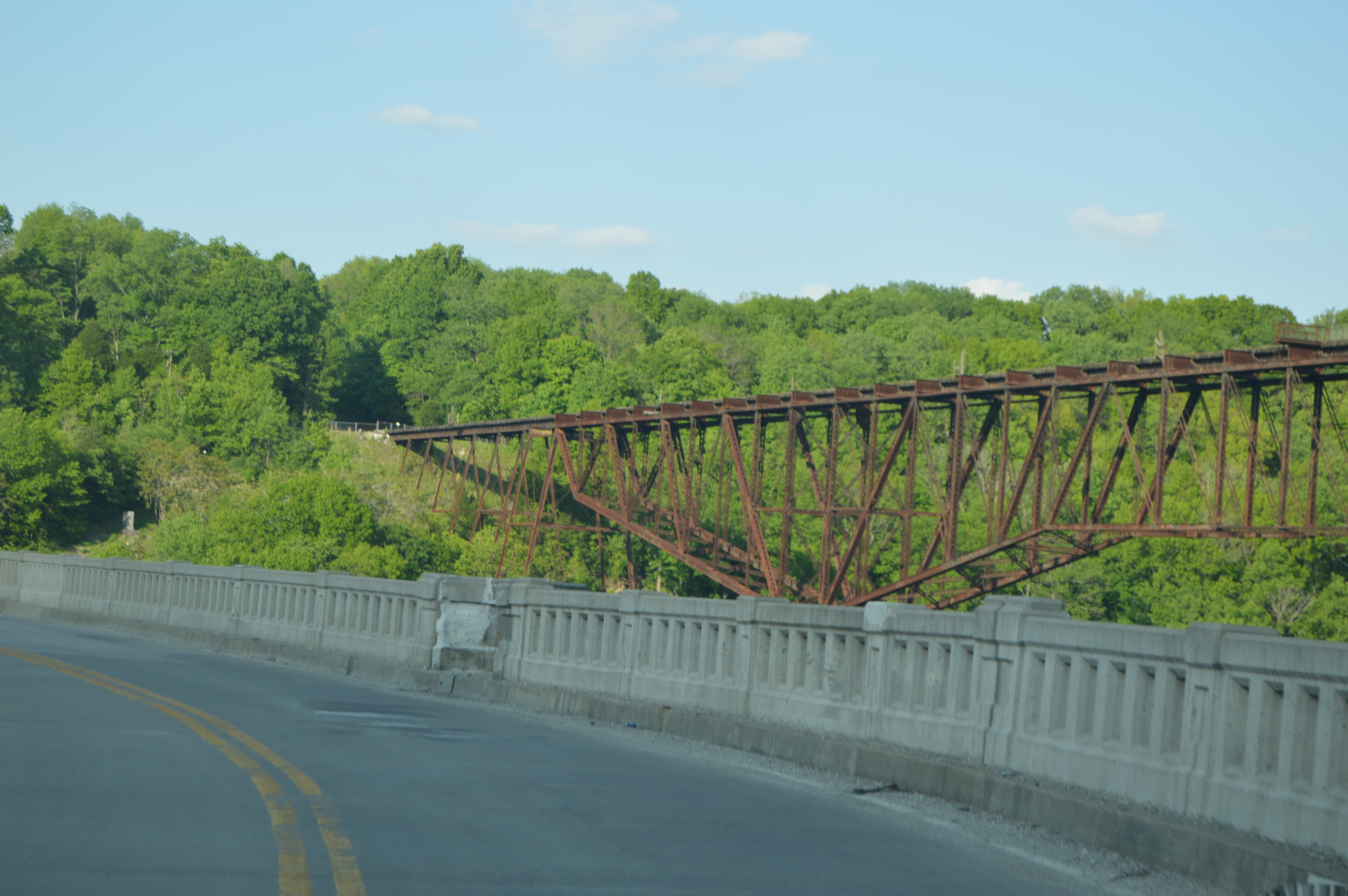 Northern side of the Tyrone Bridge, which formerly carried the Lexington Extension of the Louisville Southern Railroad over the Kentucky River between Lawrenceburg and Versailles in the U.S. state of Kentucky. Built in 1889, it is listed on the National Register of Historic Places along with the rest of the Lexington Extension. Photo is taken from the U.S. Route 62 bridge, immediately downstream.